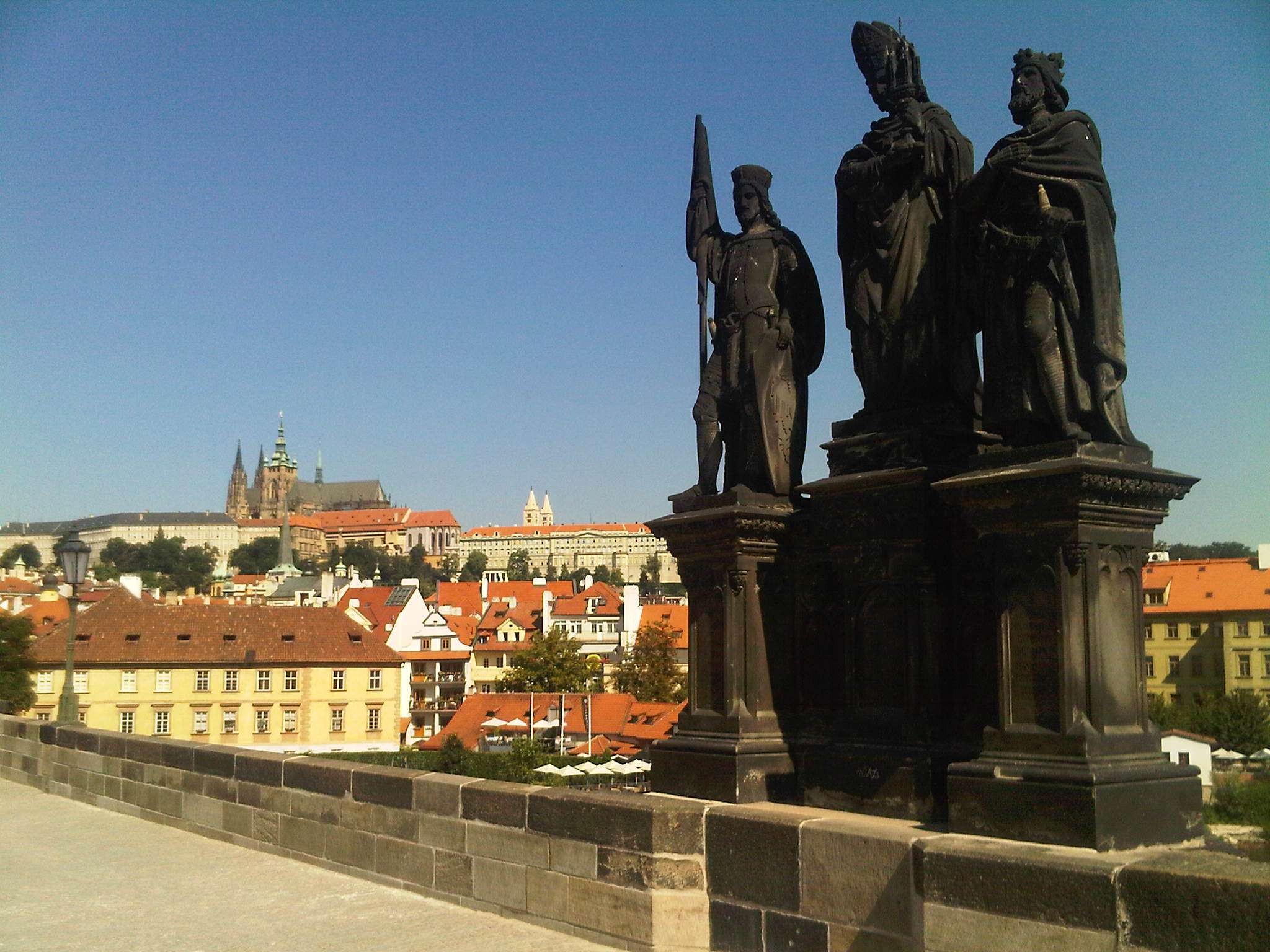 Statue of Saints Norbert of Xanten, Wenceslas and Sigismund on Charles Bridge in Prague (view towards Castle District, 2010).